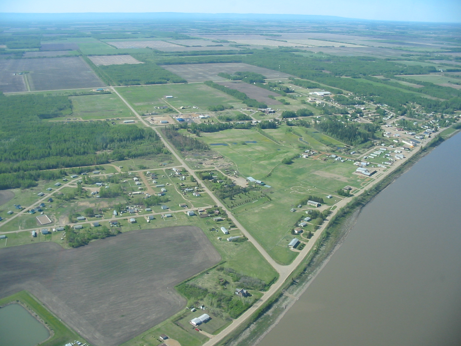 Aerial view of Fort Vermilion, Alberta, Canada in late Spring (4 June 2004).